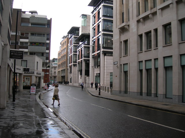 Ave Maria Lane, EC4